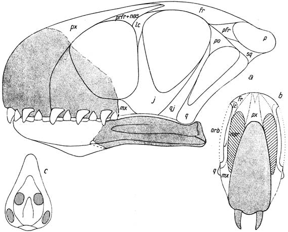 Reconstructed skull of Criorhynchus simus (now Ornithocheirus).